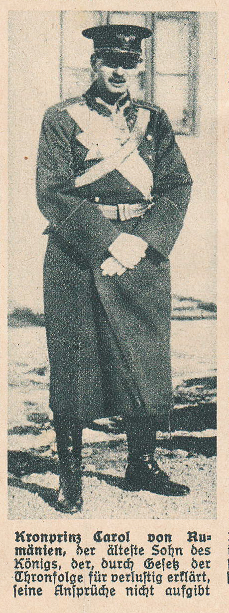 From the Catholic magazine StadtGottes 1927